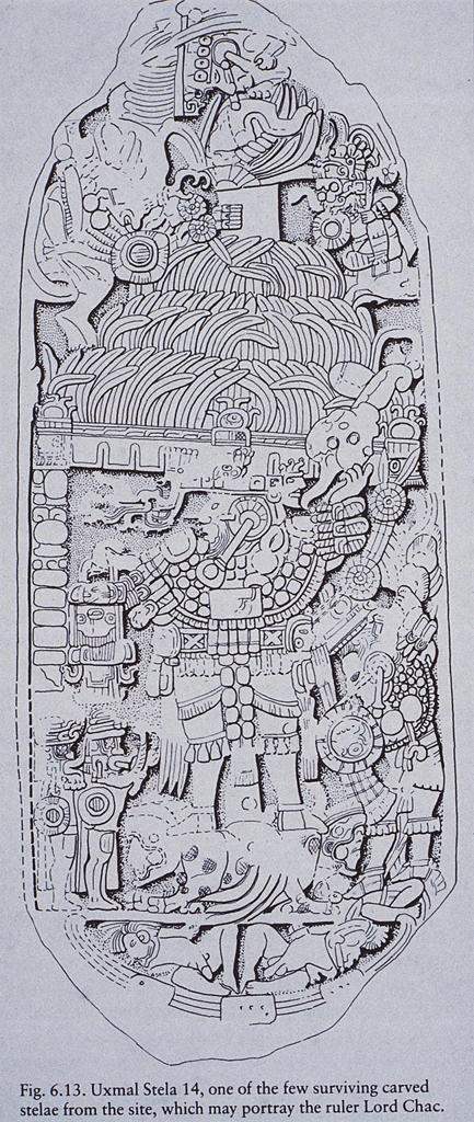 A reconstruction drawing of stela 14. Lord Chac is depicted as a Chaahk impersonator, wearing a cutaway mask of the deity, his broad head, conch-shell trumpet, axe and incense bag. The hieroglyphic inscription transcribes as: ubaah k'ahk' pulaj chan chaahk tzeh kab k'in. This translates as: it is the image of K'ahk' Pulaj Chan Chaahk, left hand of the sun. For a better drawing, see external links.